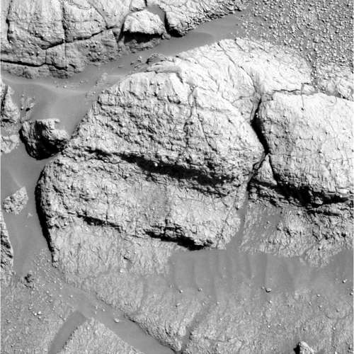 Close up of 'El Capitan' in the 'Opportunity Ledge' region on Mars